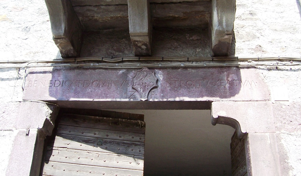 Portal with coat of arms of Federici's family. Esine, Val Camonica